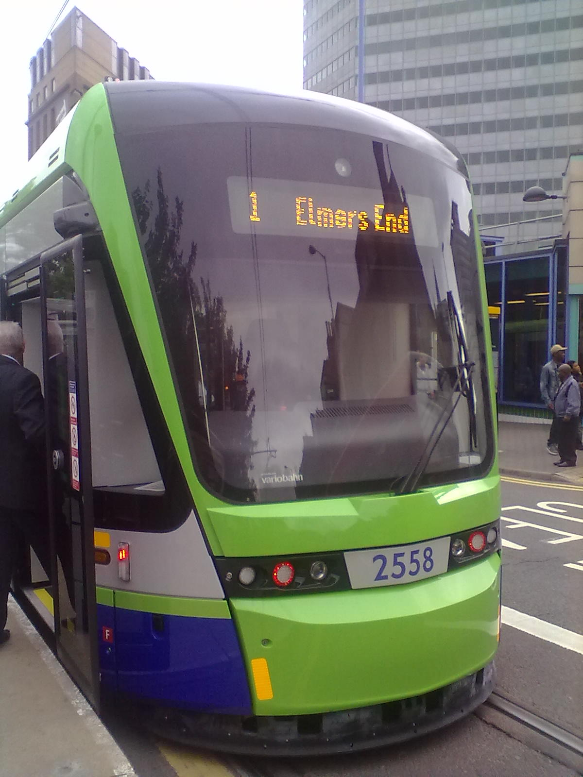 A close up of Tram 2558